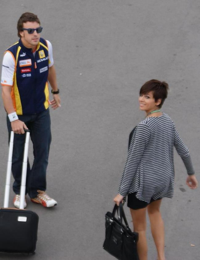 2009 Spanish Grand Prix.